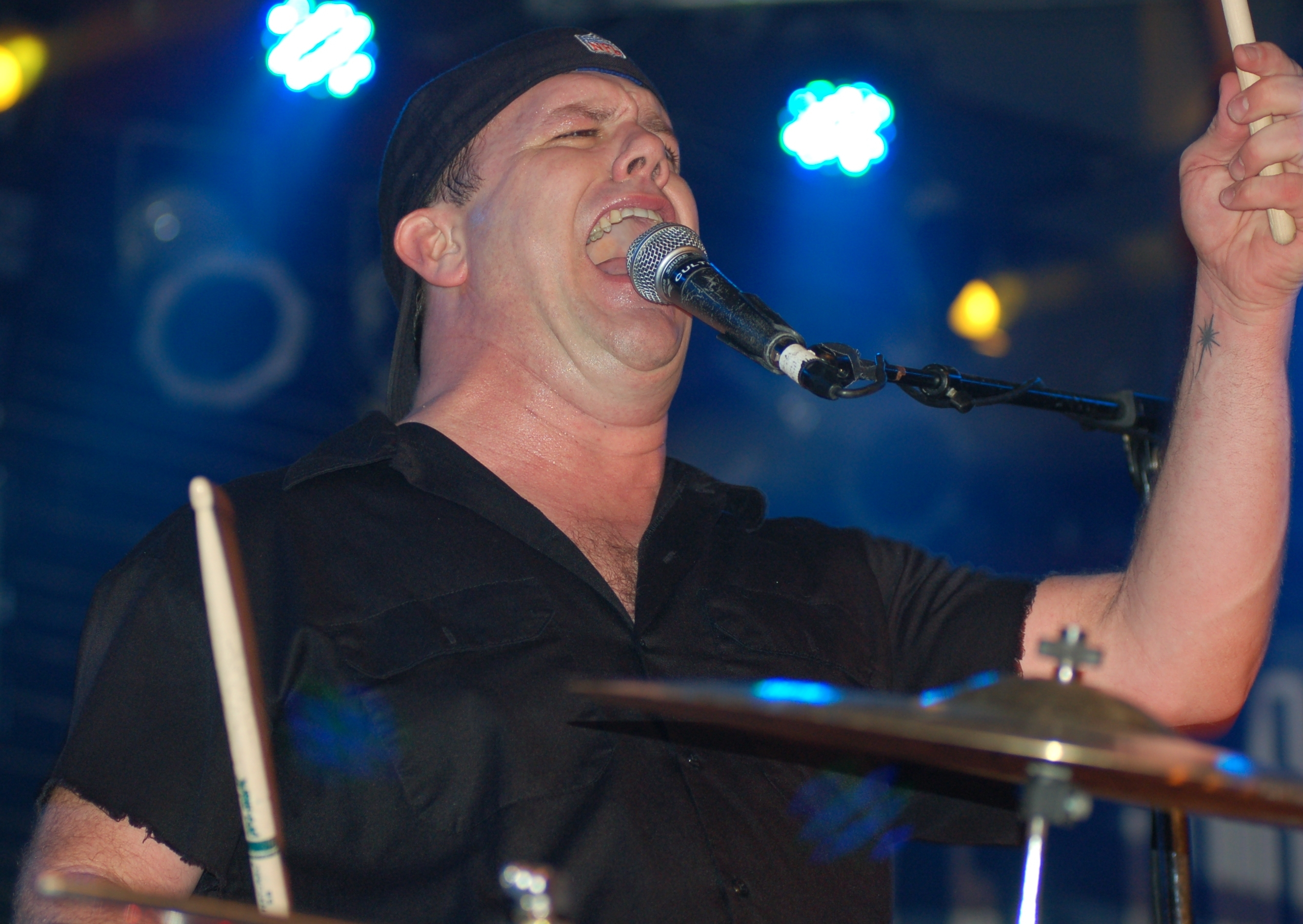 Fred LeBlanc performing at the Culture Room in Fort Lauderdale, Florida